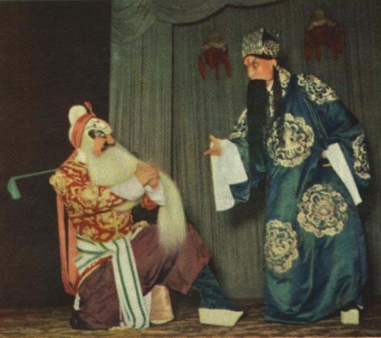 1950年9月的《人民画报》，京剧《将相和》中廉颇向蔺相如负荆请罪。